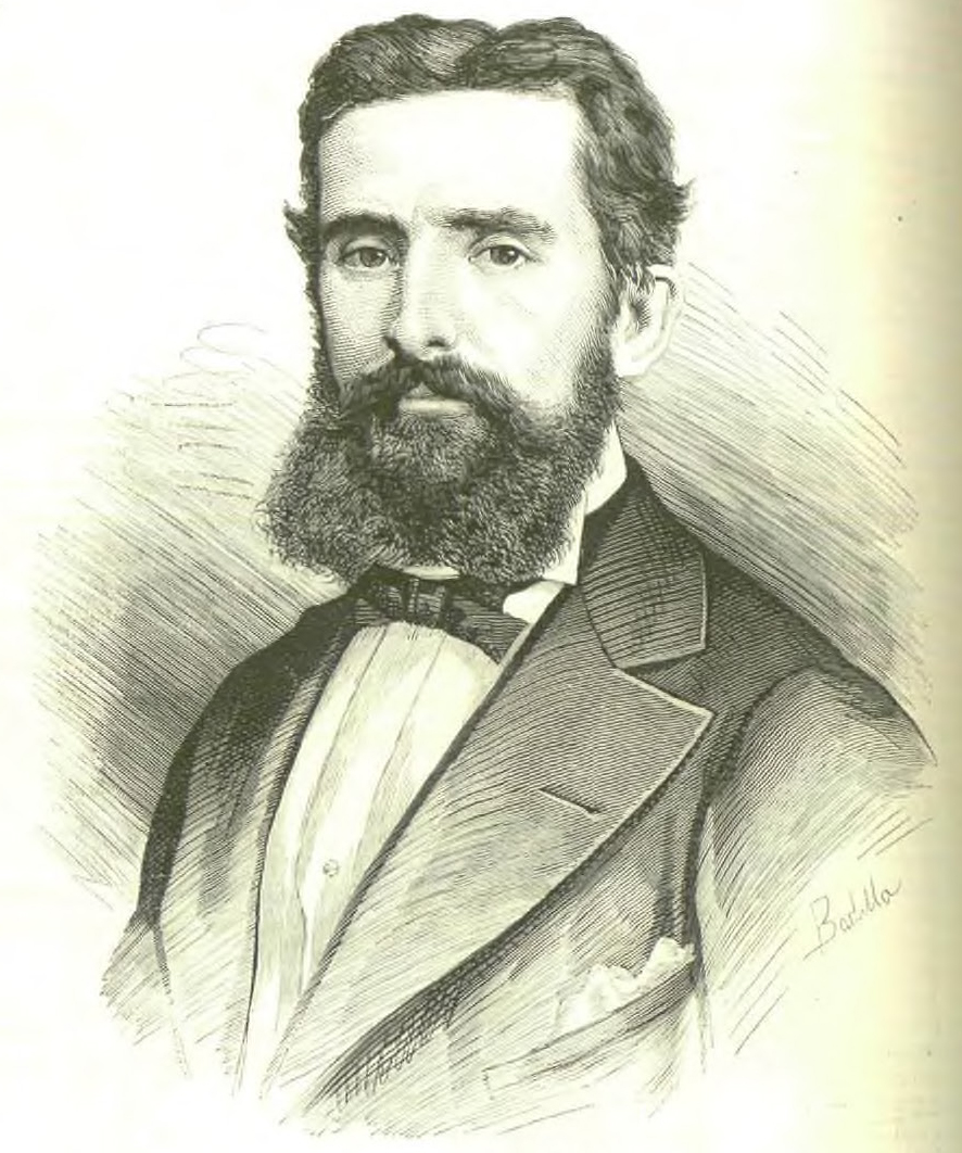 Miguel Marqués (1843-1918), Spanish composer. Illustration from: La Ilustración Española y Americana, 1878, No. 15, p. 260.